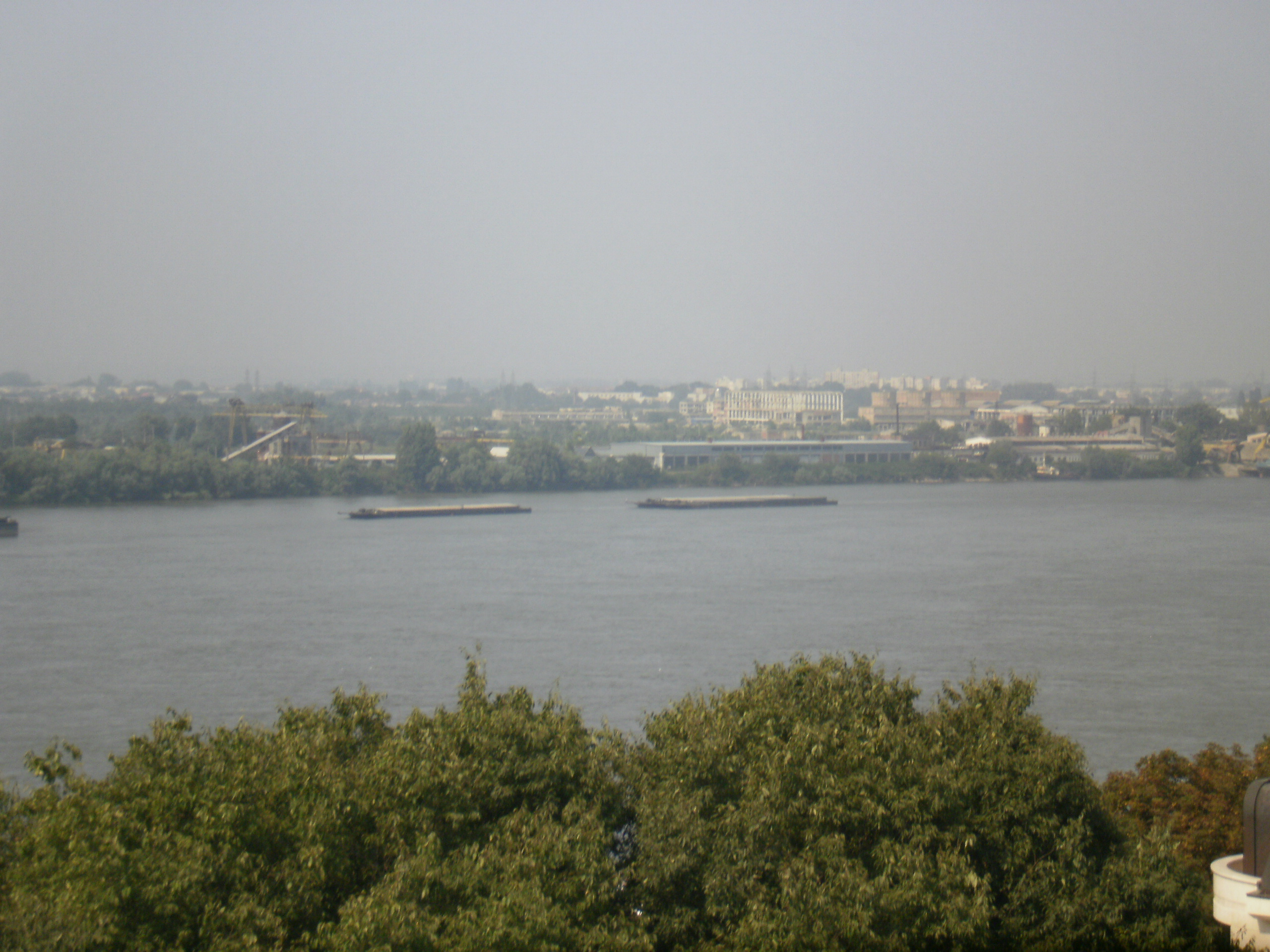 Danube river, Rousse, Bulgaria.